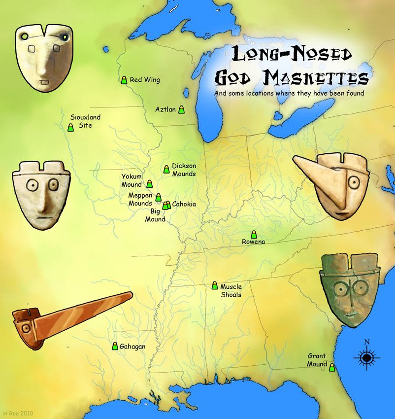 A map showing the distribution of finds of Long-nosed god maskette, artifacts of the Mississippian culture.